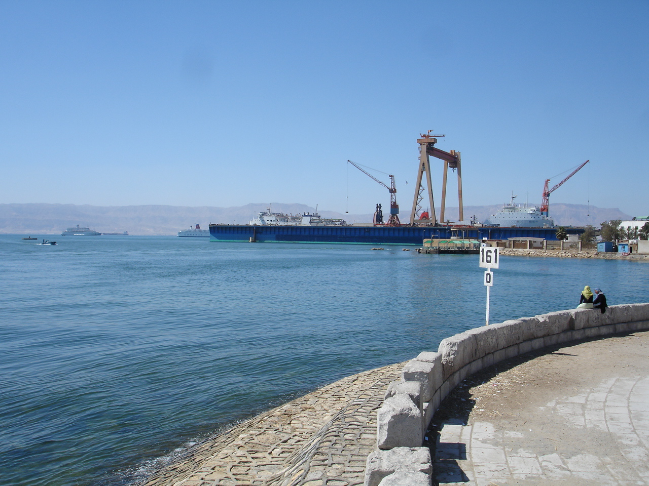 Port Tawfik shipyard at the south-end of Suez Canal, over-viewing the gulf of Suez. Mount E'ttaqa is seen in the background